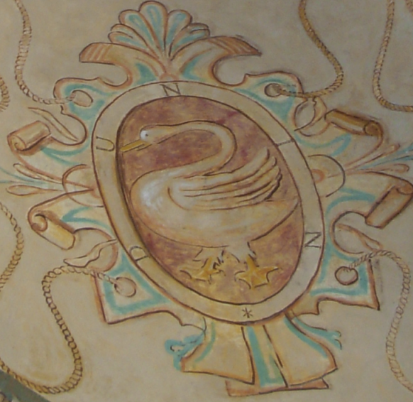 Labedz coat of arms (Dunin) in Baranow-Sandomierski castle. Detail of Image:Baranów Sandomierski - castle 04.JPG full resolution, by User:Piotrus and tagged with the same “self2.GFDL.cc-by-sa-2.5,2.0,1.0” license.